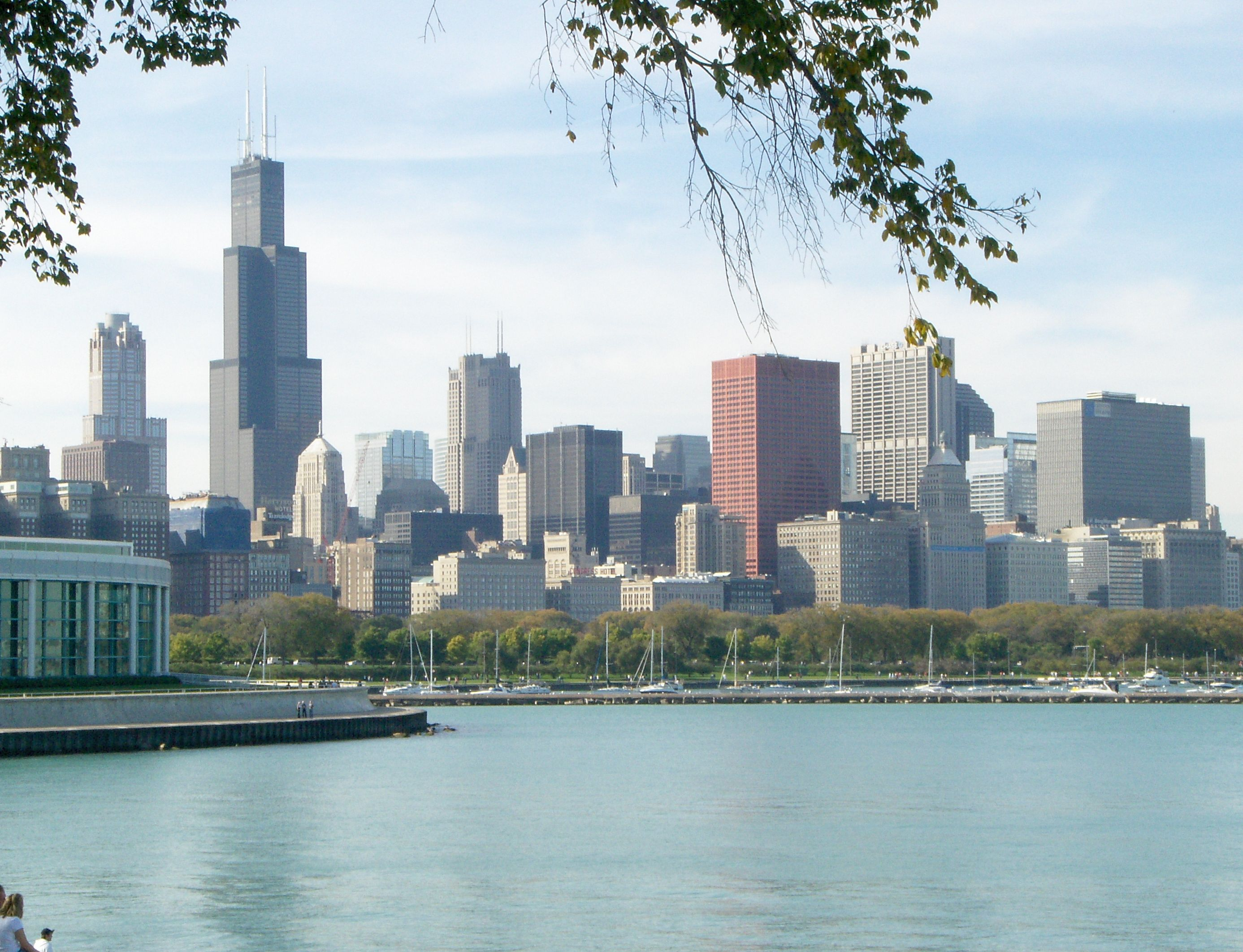 Chicago downtown (another view)